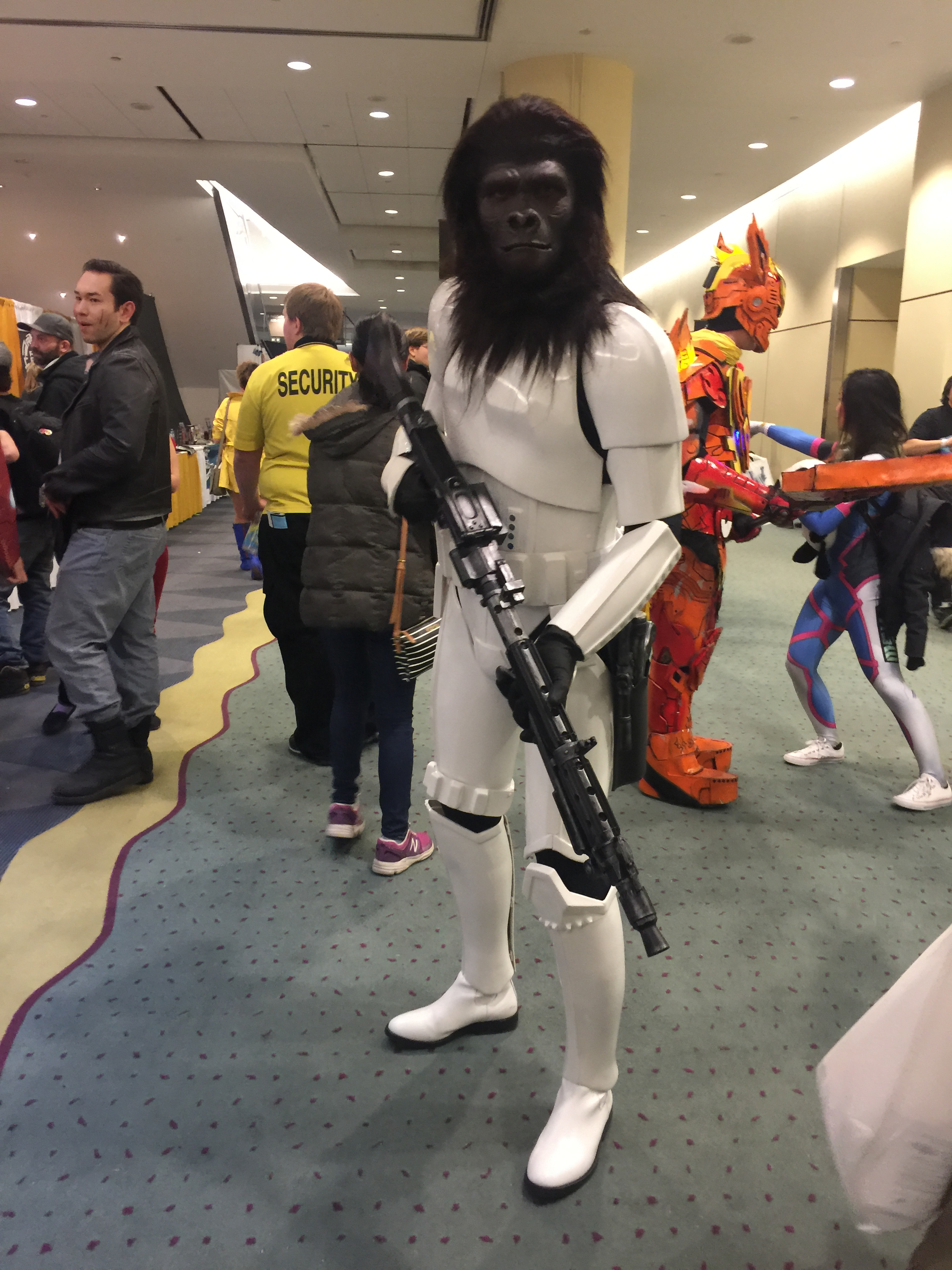 Cosplayer at Toronto Comicon 2017.